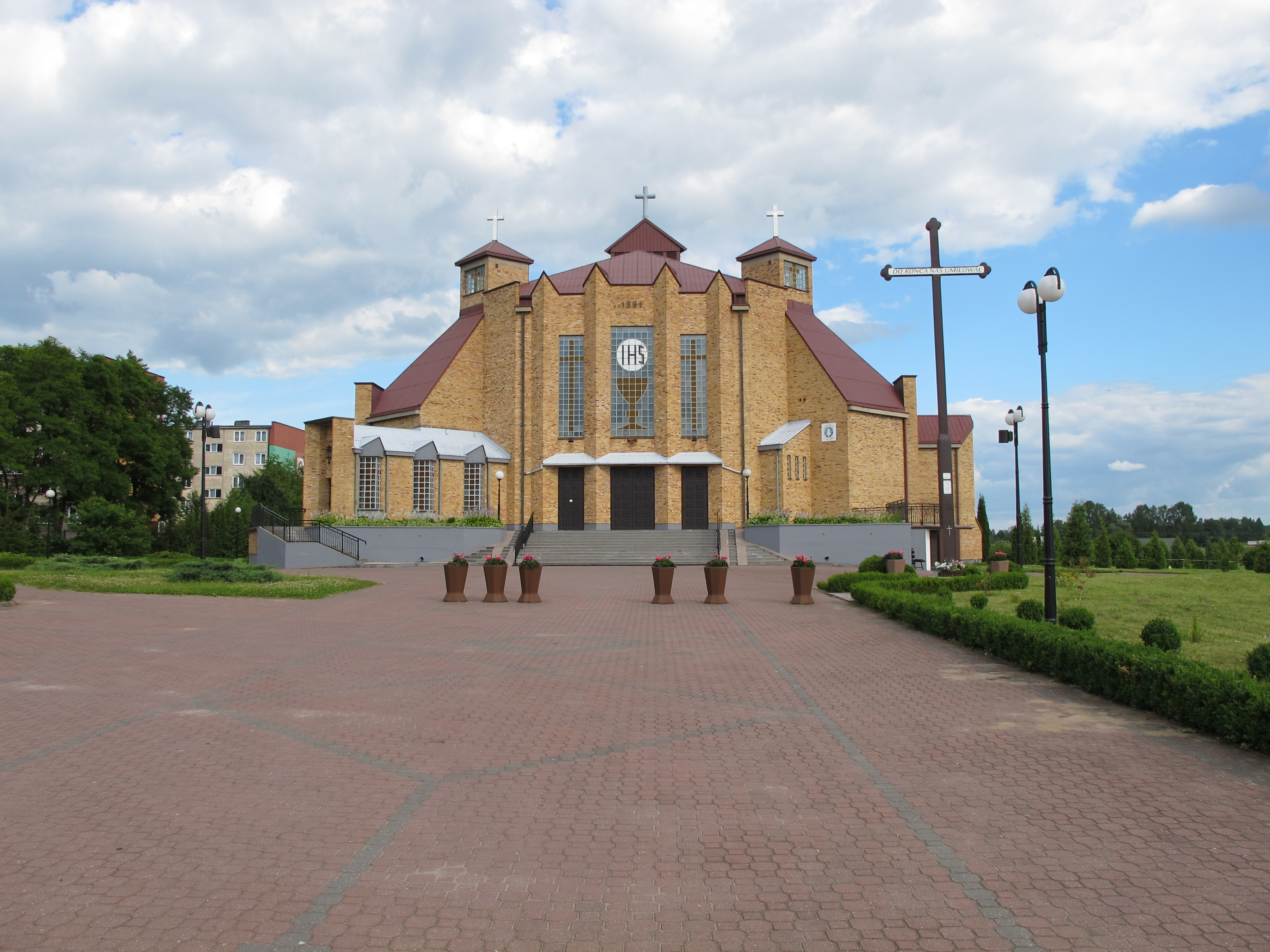 Church of Corpus Christi by John Paul's II street in Sokółka, gmina Sokółka, podlaskie, Poland